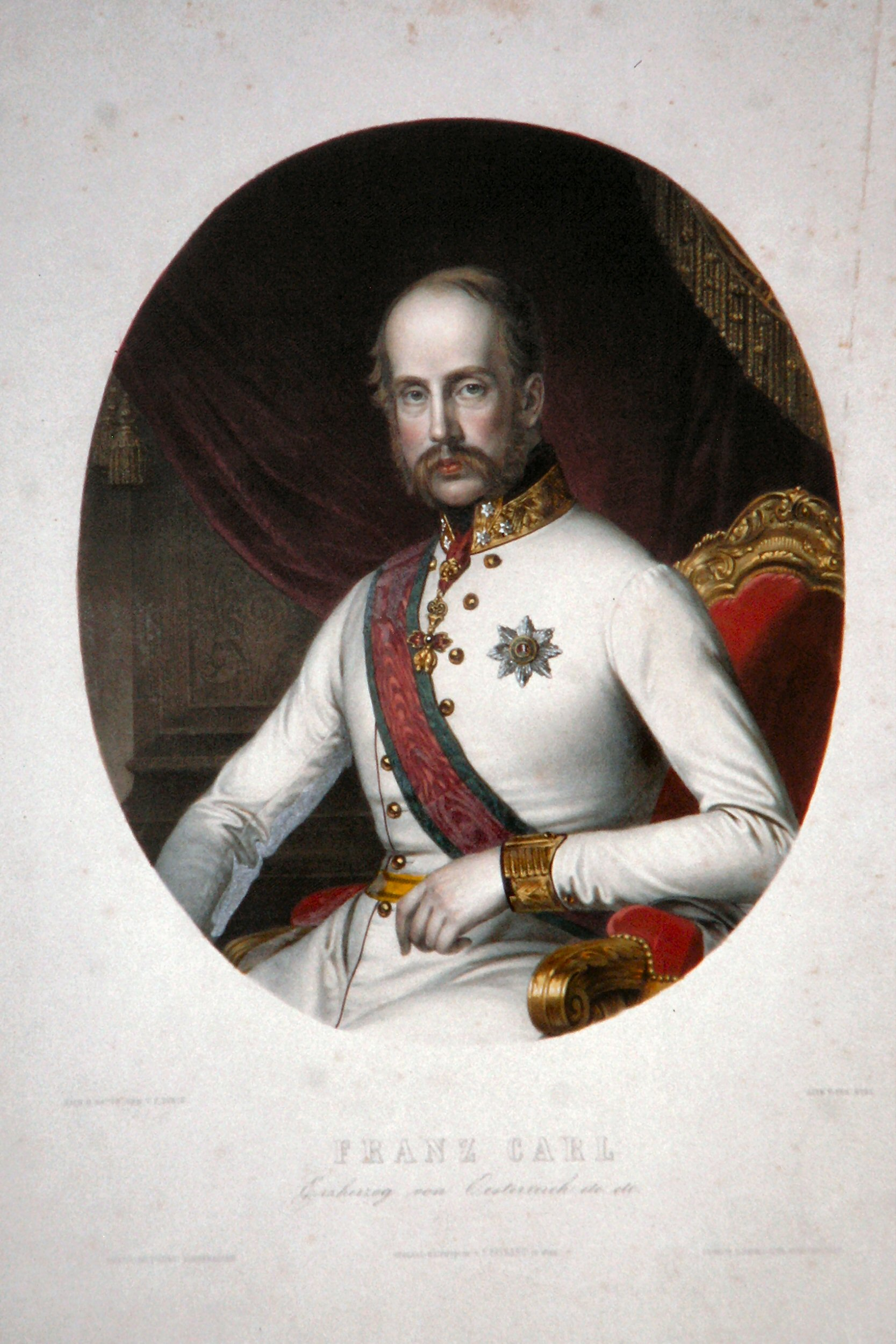 Portrait of Franz Karl of Austria (1802-1878)